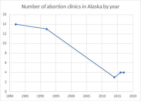 Number of abortion clinics in Alaska by year. Uses data from references at